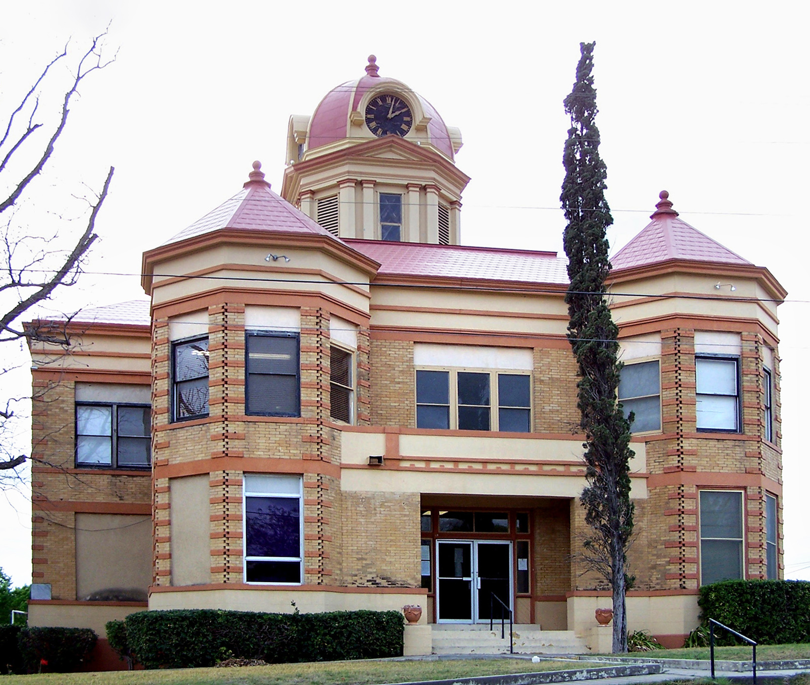 The Kinney County, Texas courthouse located in Brackettville, Texas, United States. The Beaux Arts style structure was built in 1910 and listed on the National Register of Historic Places in 2004.